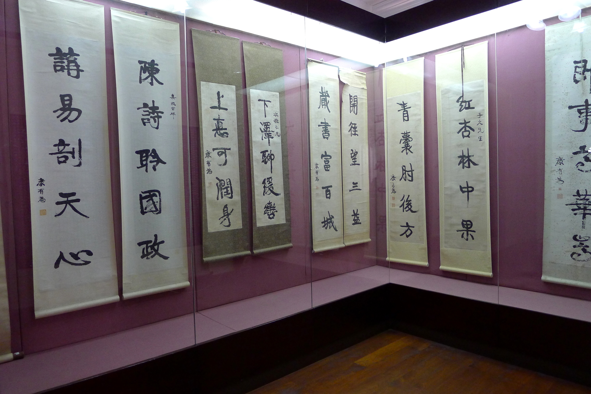 Kang Youwei caligraphy